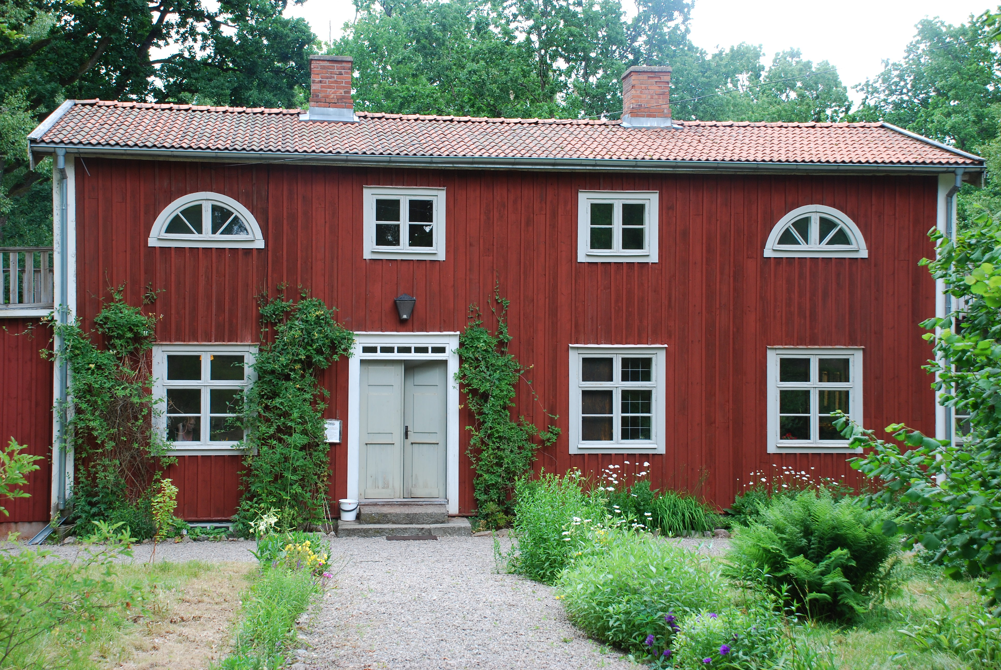 Elin Wägner's "Lilla Björka" in Berg, Småland.